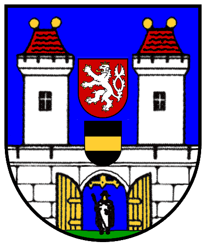 Coats of arms of Pelhřimov Česky: Znak města Pelhřimov